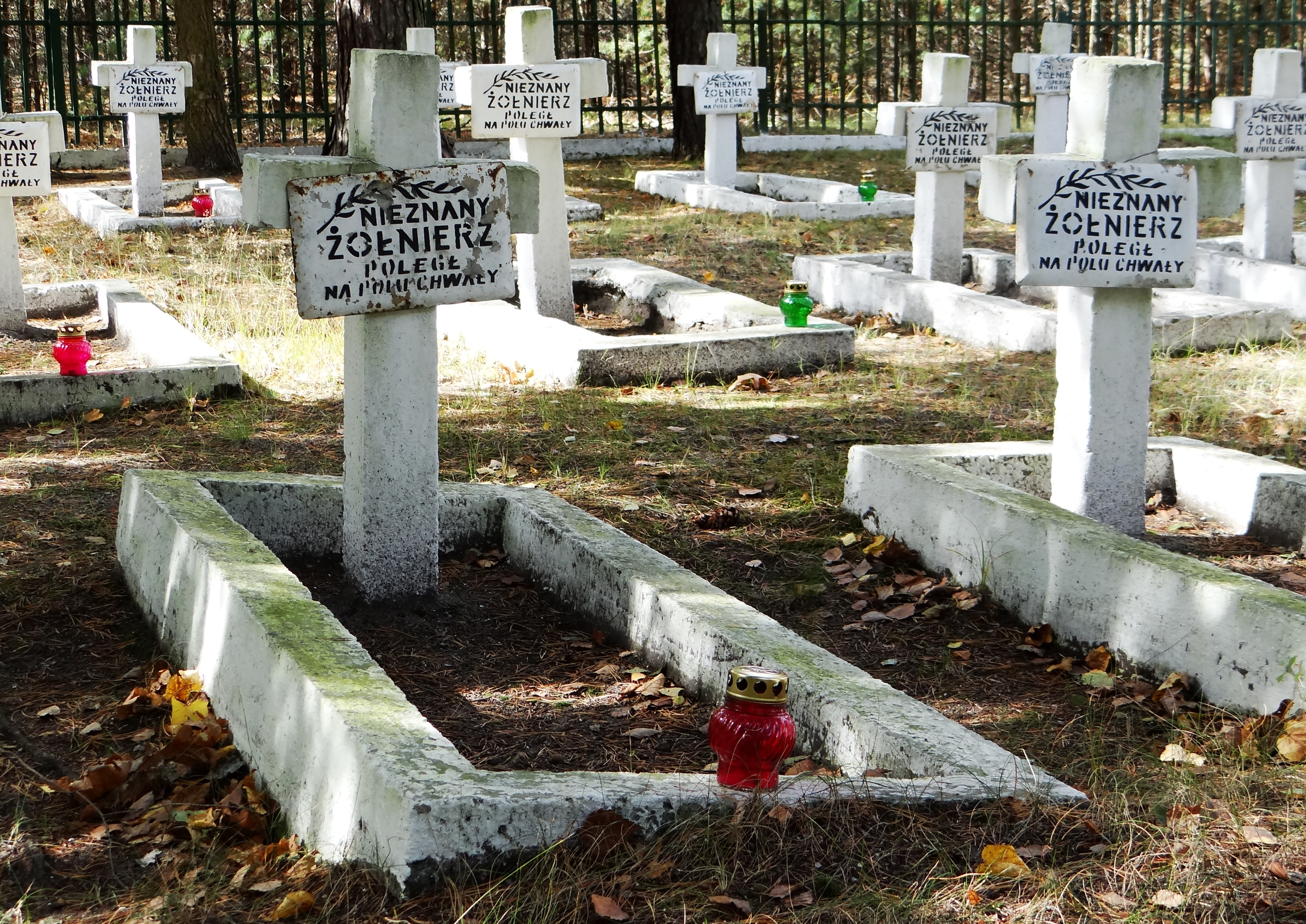 I and II World War cemetery in Harasiuki, subcarpathian voivodeship